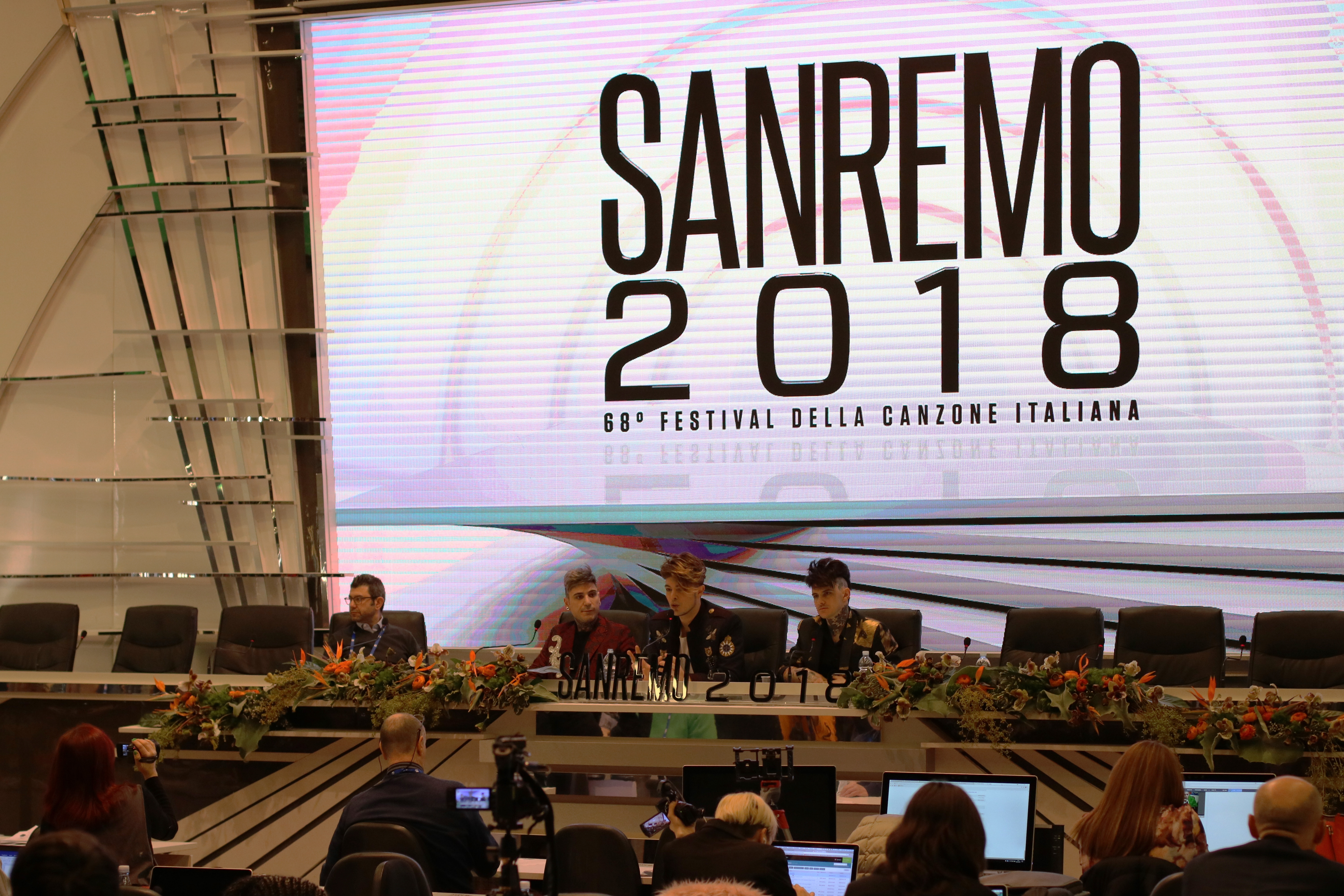 „The Kolors“ di Sanremo